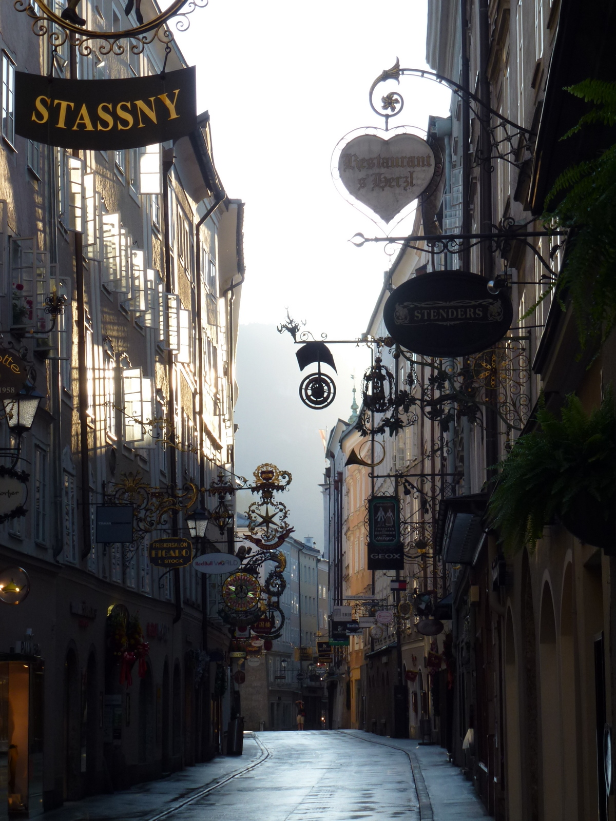 Getreidegasse, Salzburg, in the morning